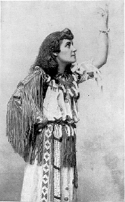 E. Pauline Johnson with bear claw bracelet